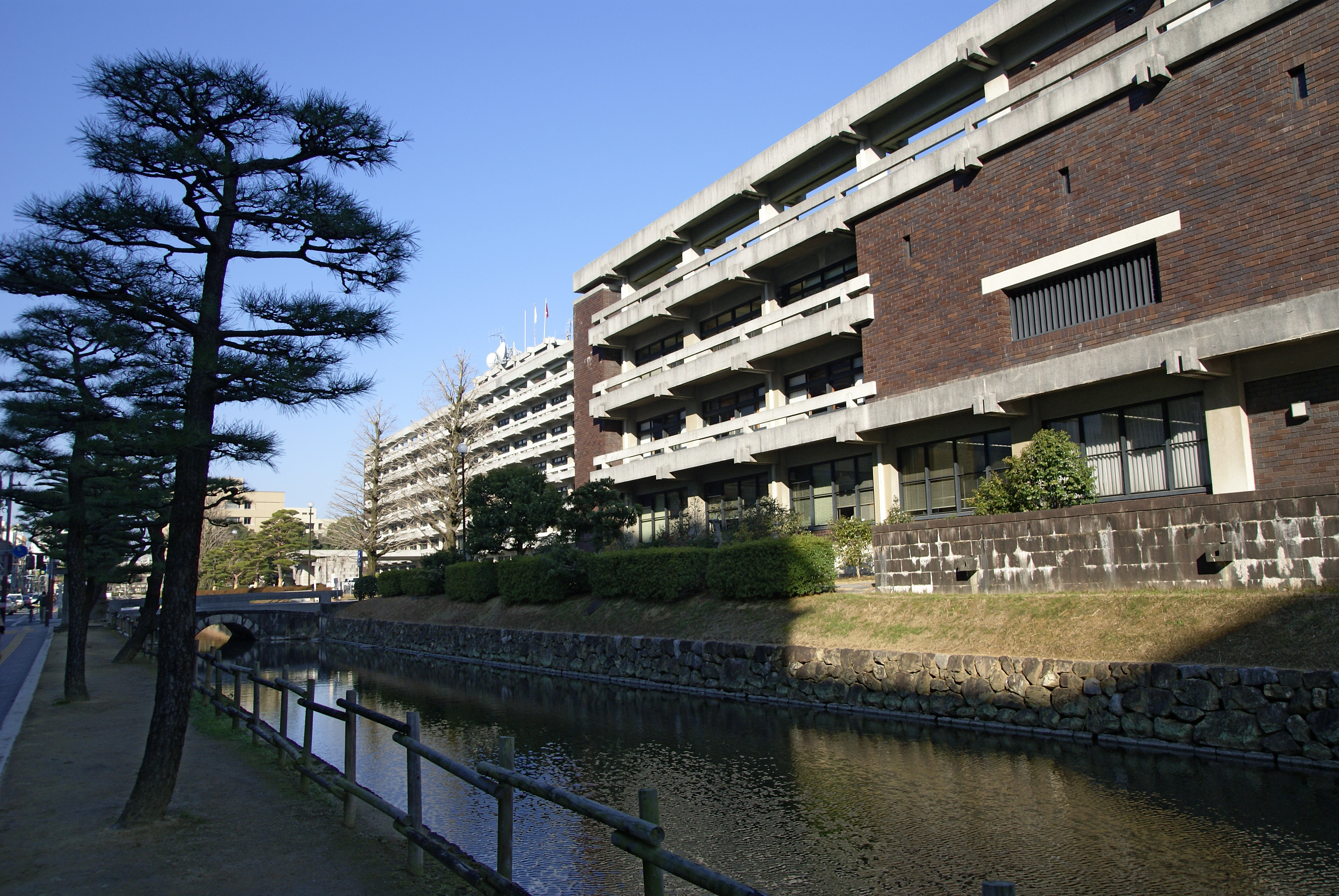 Kochi Prefectural Office Building in Kochi, Kochi prefecture, Japan